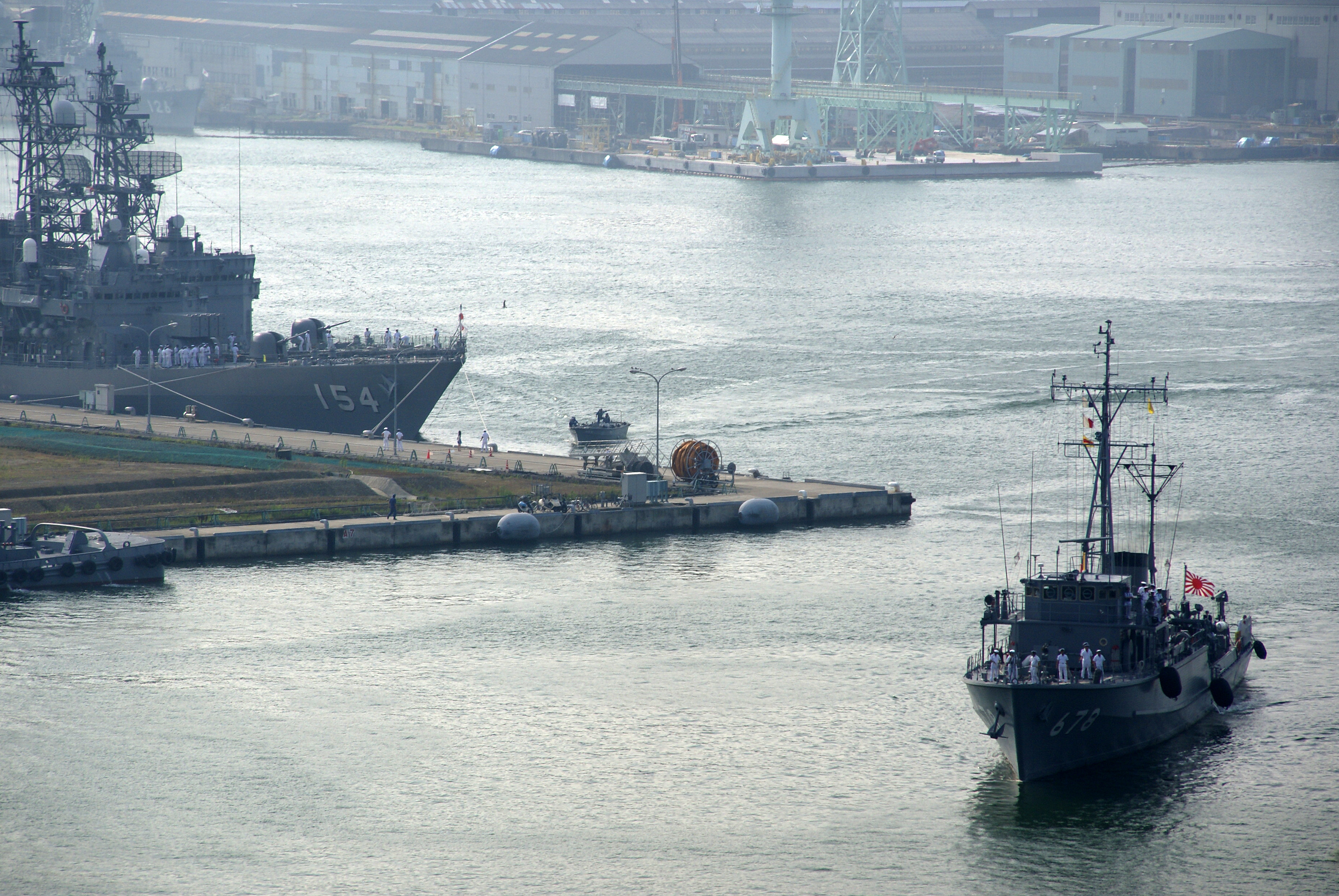 JS Amagiri (DD-154), left, and JS Tobishima (MSC-678) at Maizuru. Sony DSLR-A100